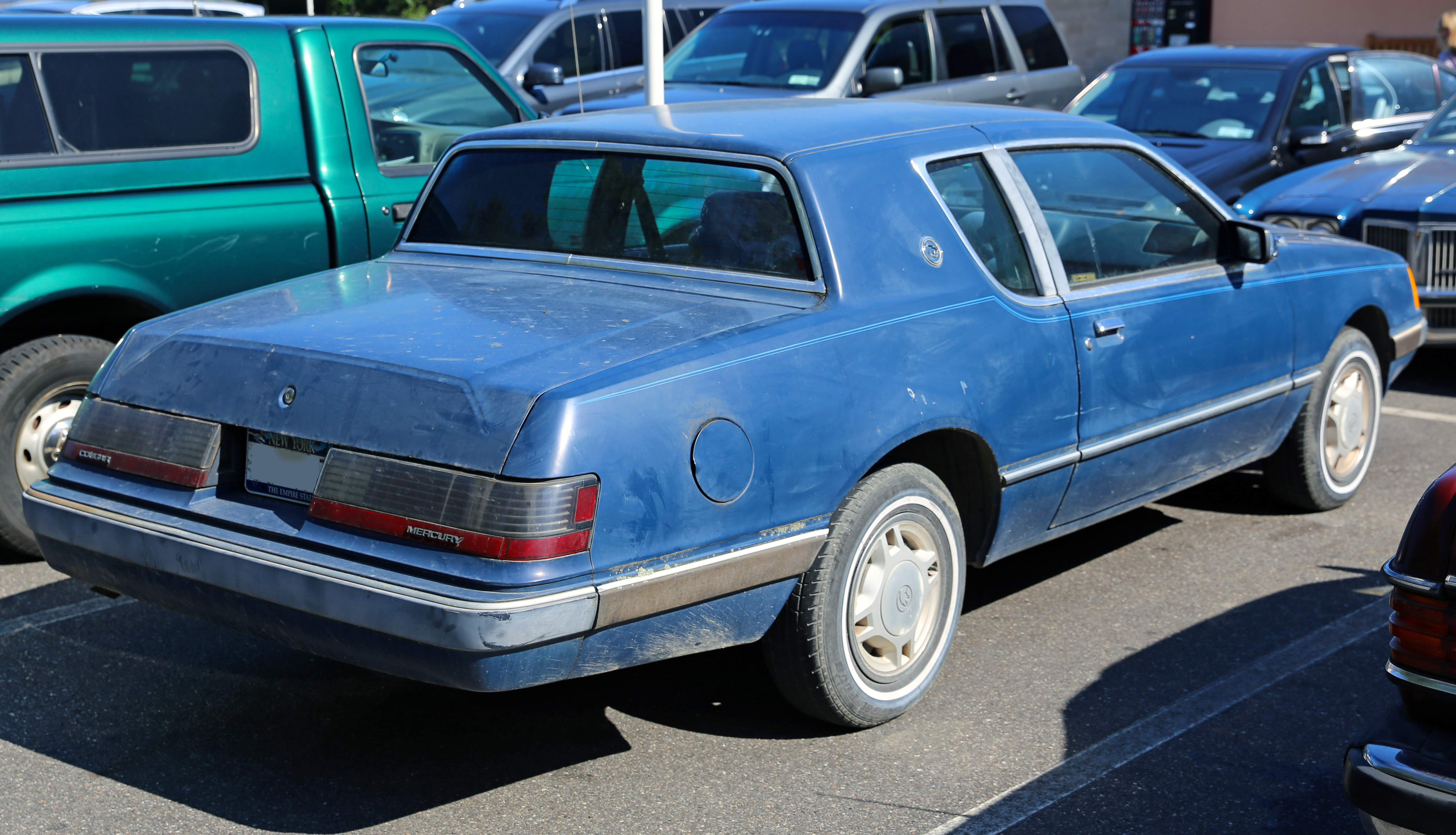 Rear view of 1985 Mercury Cougar 3.8 V6 (first facelift model). The trunk lid is rusting away in real life, I drew it back in.